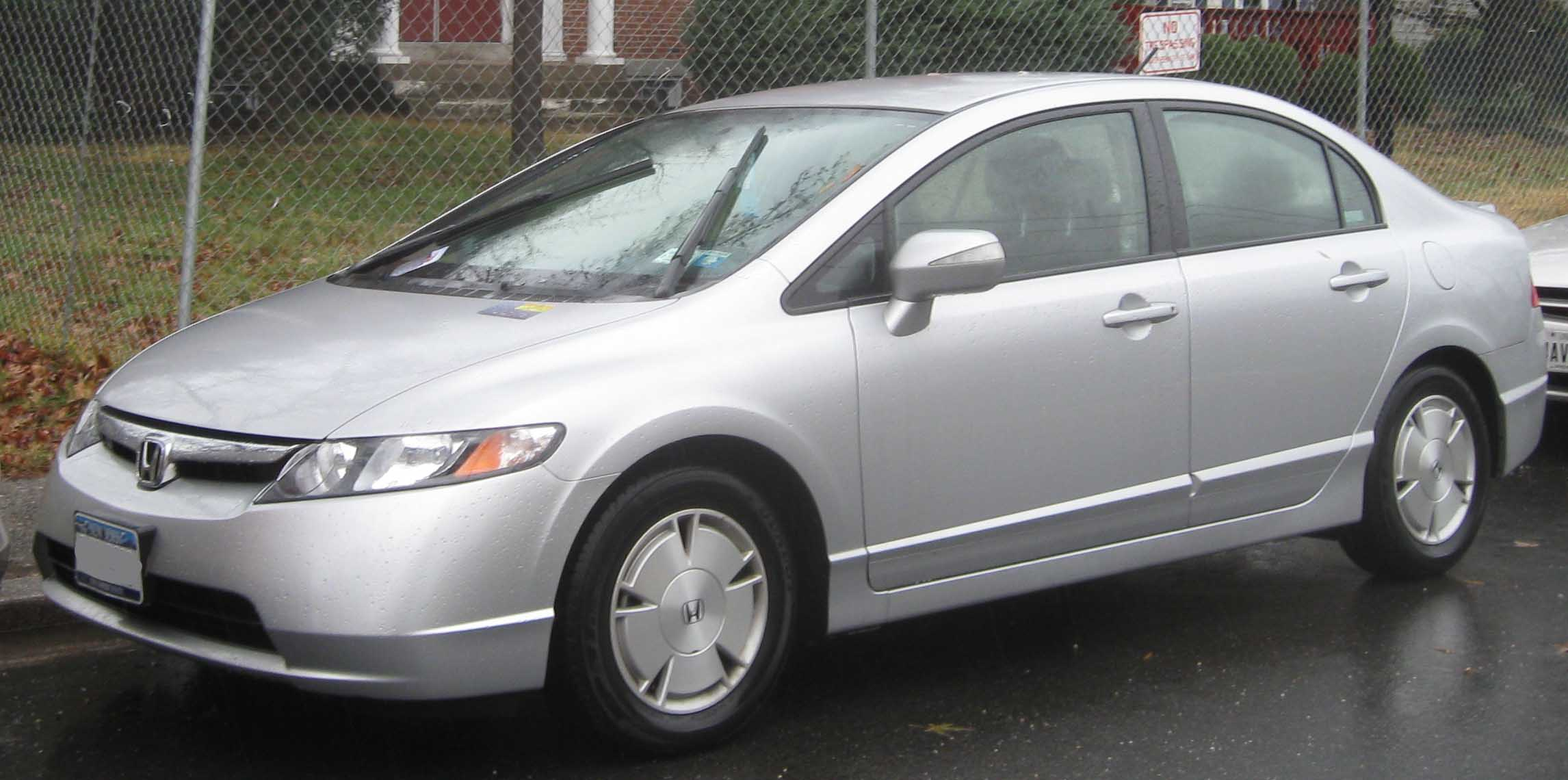 2006-2008 Honda Civic Hybrid photographed in College Park, Maryland, USA.